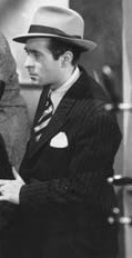 Roberto Quiroga- actor y cantante argentino